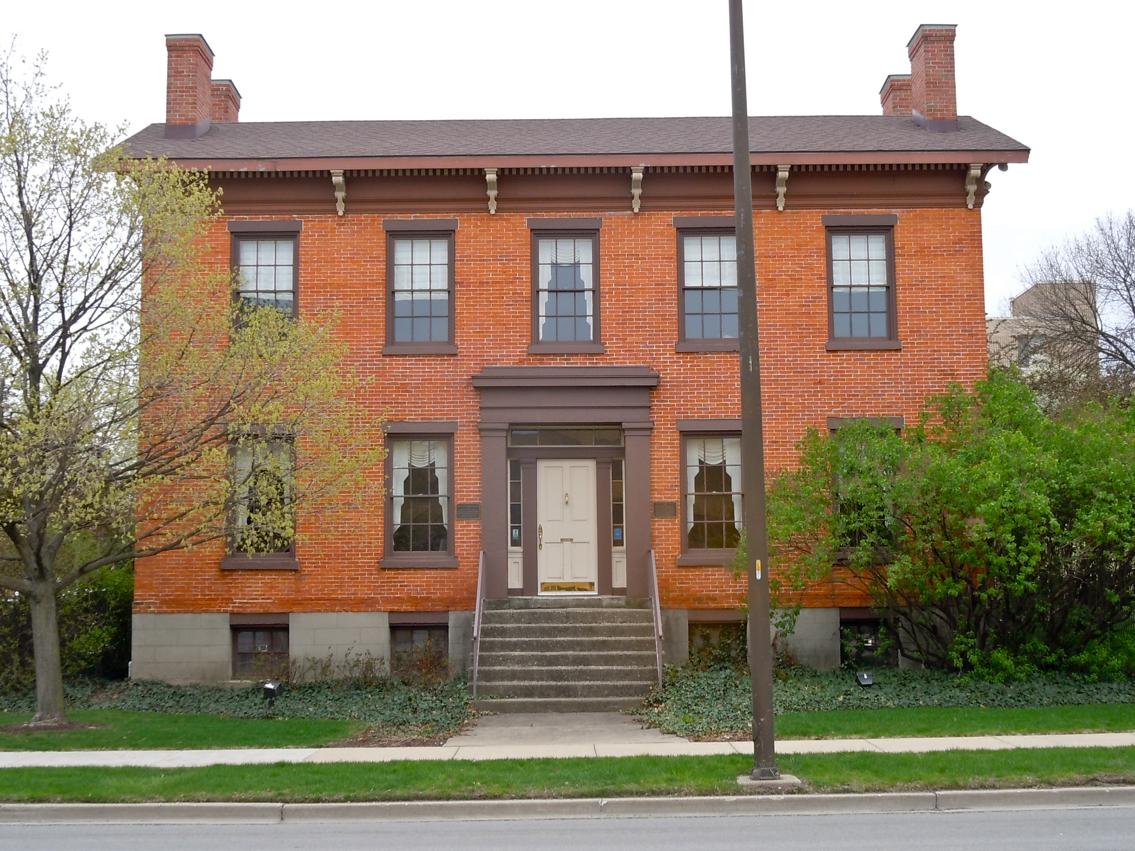 William S. Edsall House on the NRHP since October 8, 1976. At 305 W. Main St., Fort Wayne, Allen County, Indiana